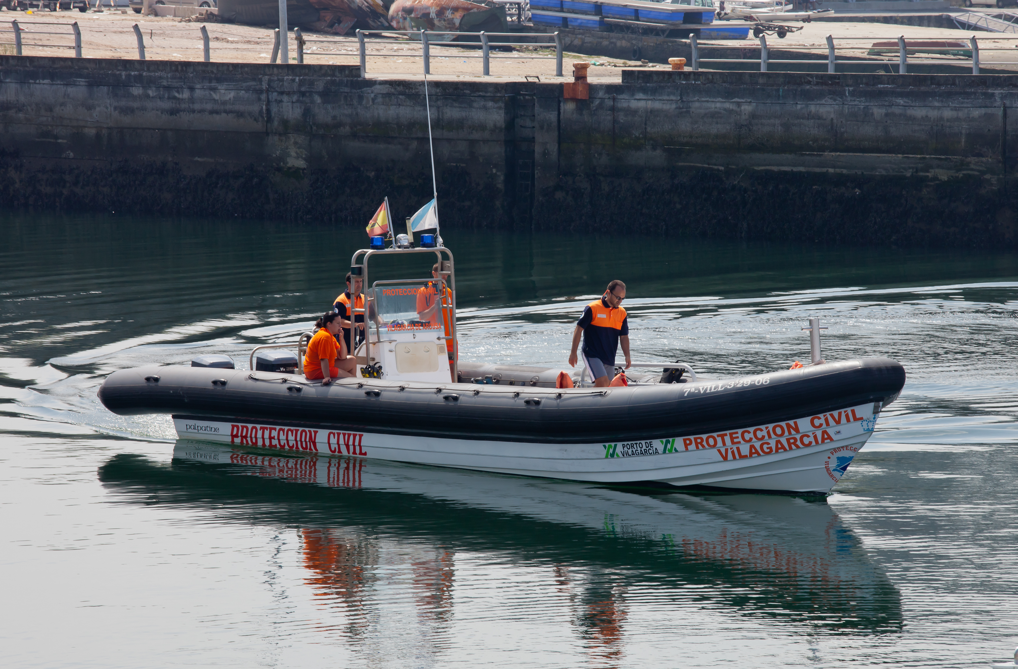 Boat of Civil defense, Vilagarcía de Arousa. Galicia (Spain)